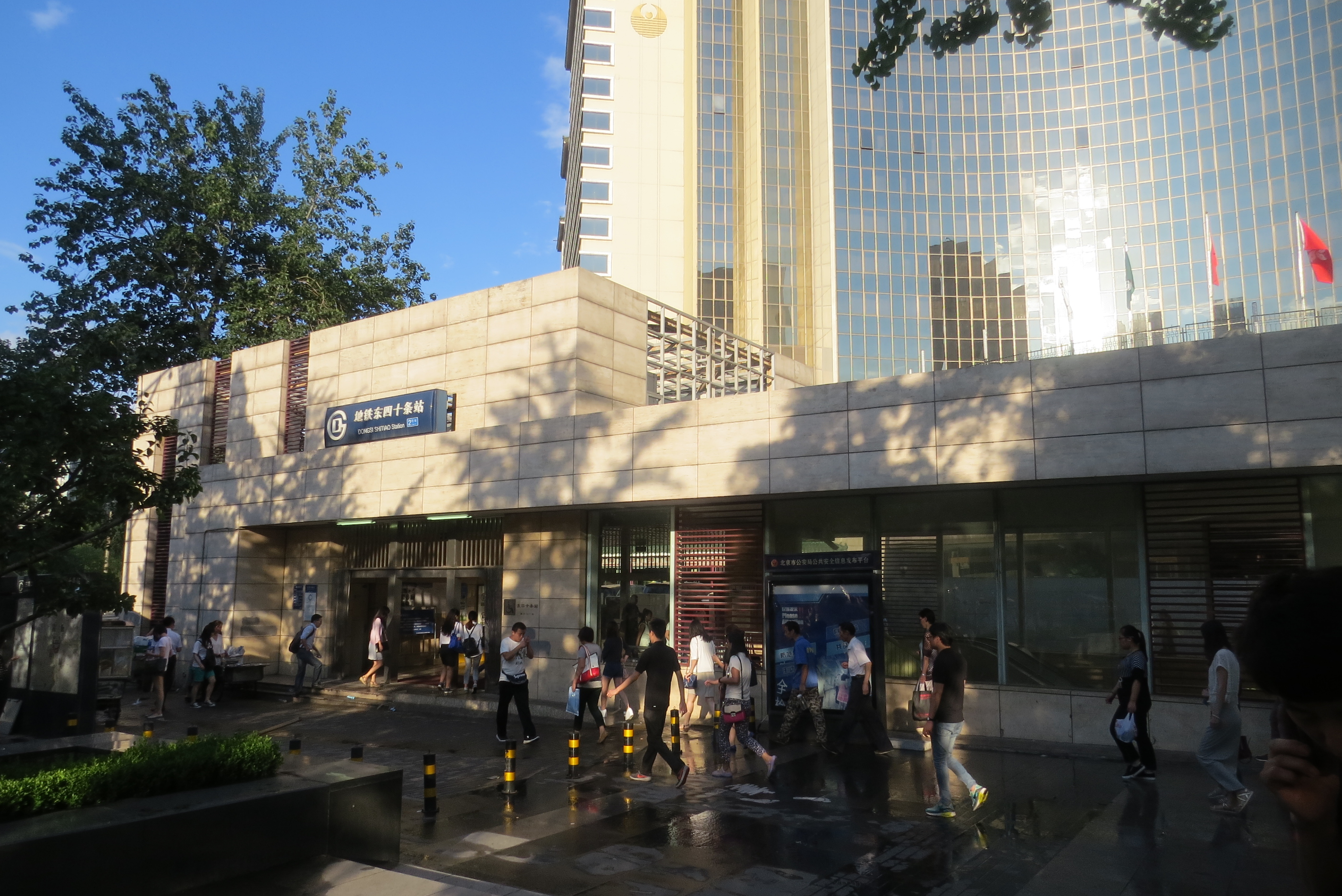 The exit we use for access to Workers' Stadium.